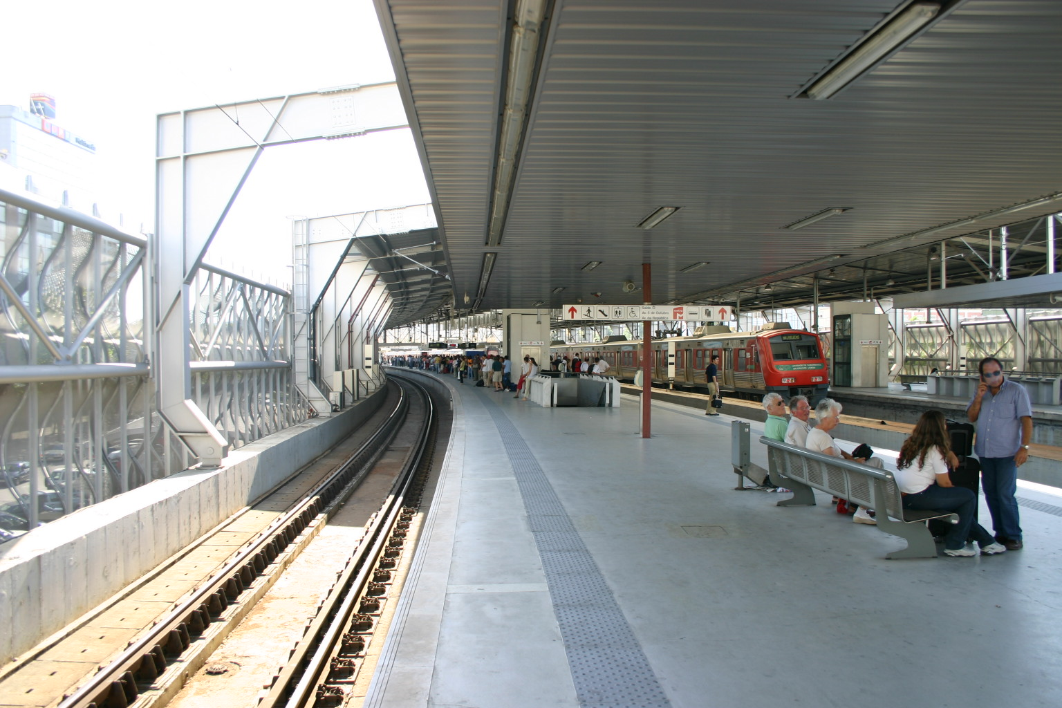 Entrecampos station, Lisbon.